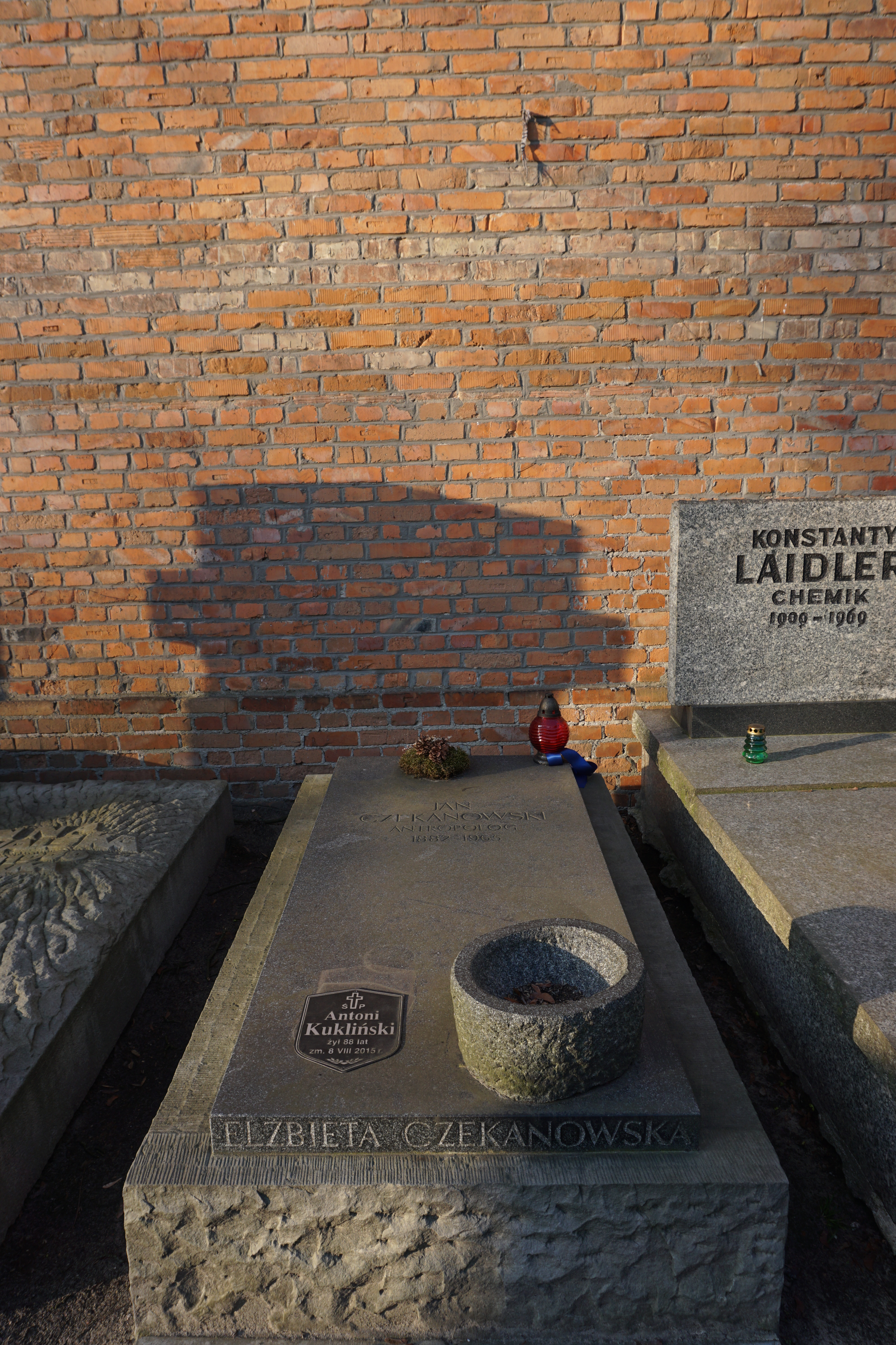 The grave of Jan Czekanowski at the Powązki Cemetery (Avenue of Deserved, grave 144)